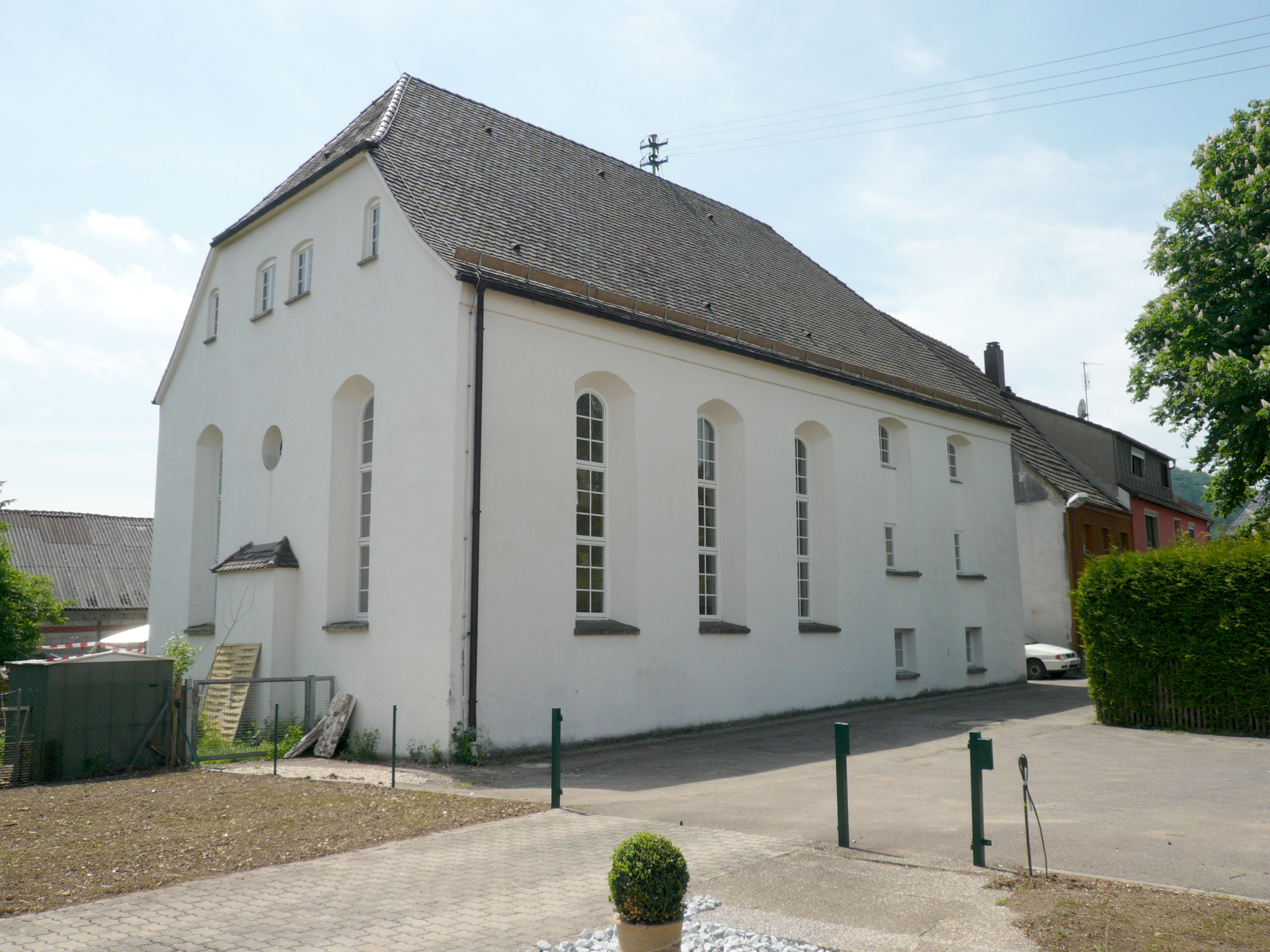 Synagogue at Bopfingen-Oberdorf, destroyed in 1938, today a museum